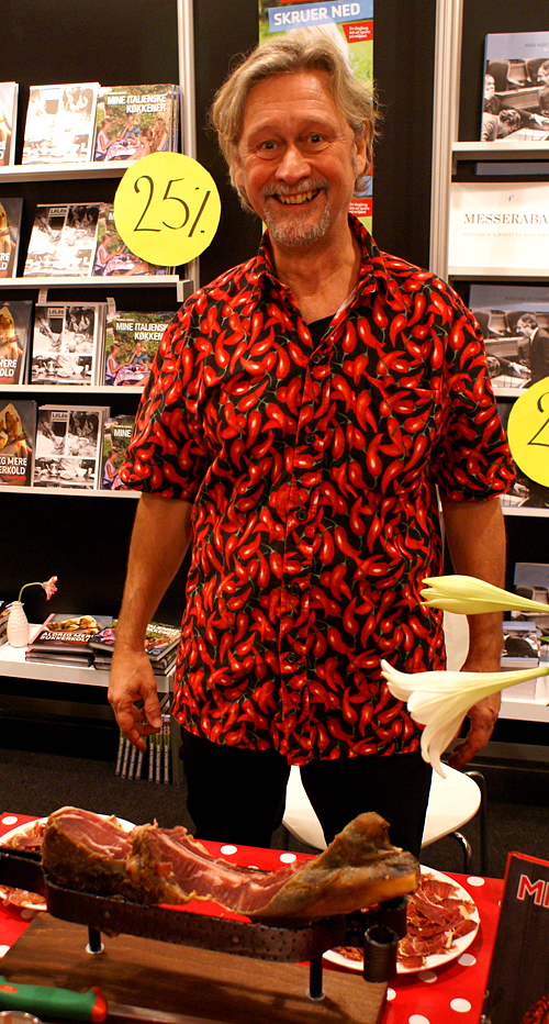 Mik Schack, Danish journalist, musician, writer and TV-host entertaining at the bookfair Bogforum-2008.